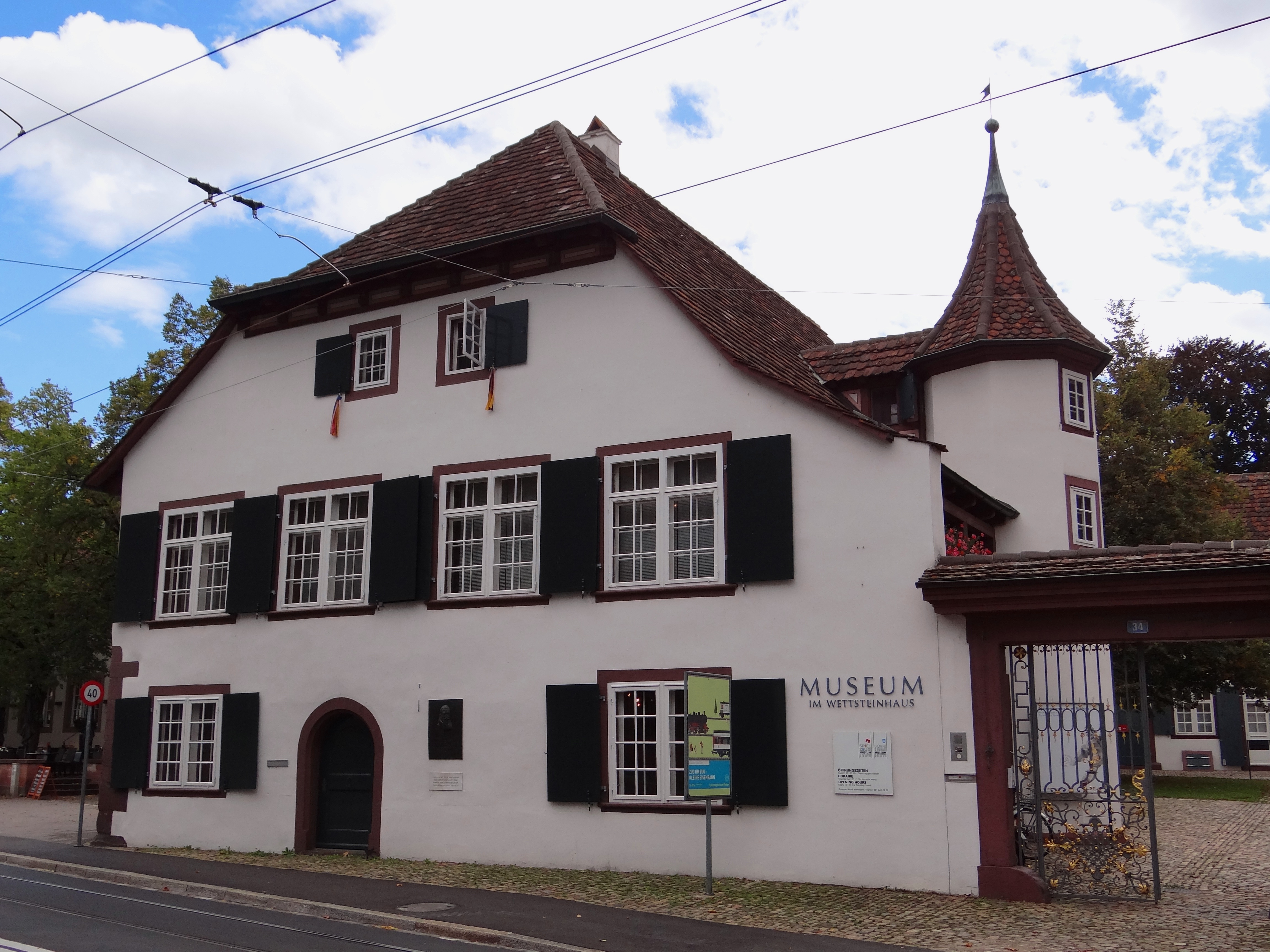 House of Wettstein (No 30), today Museum of Toys, Riehen